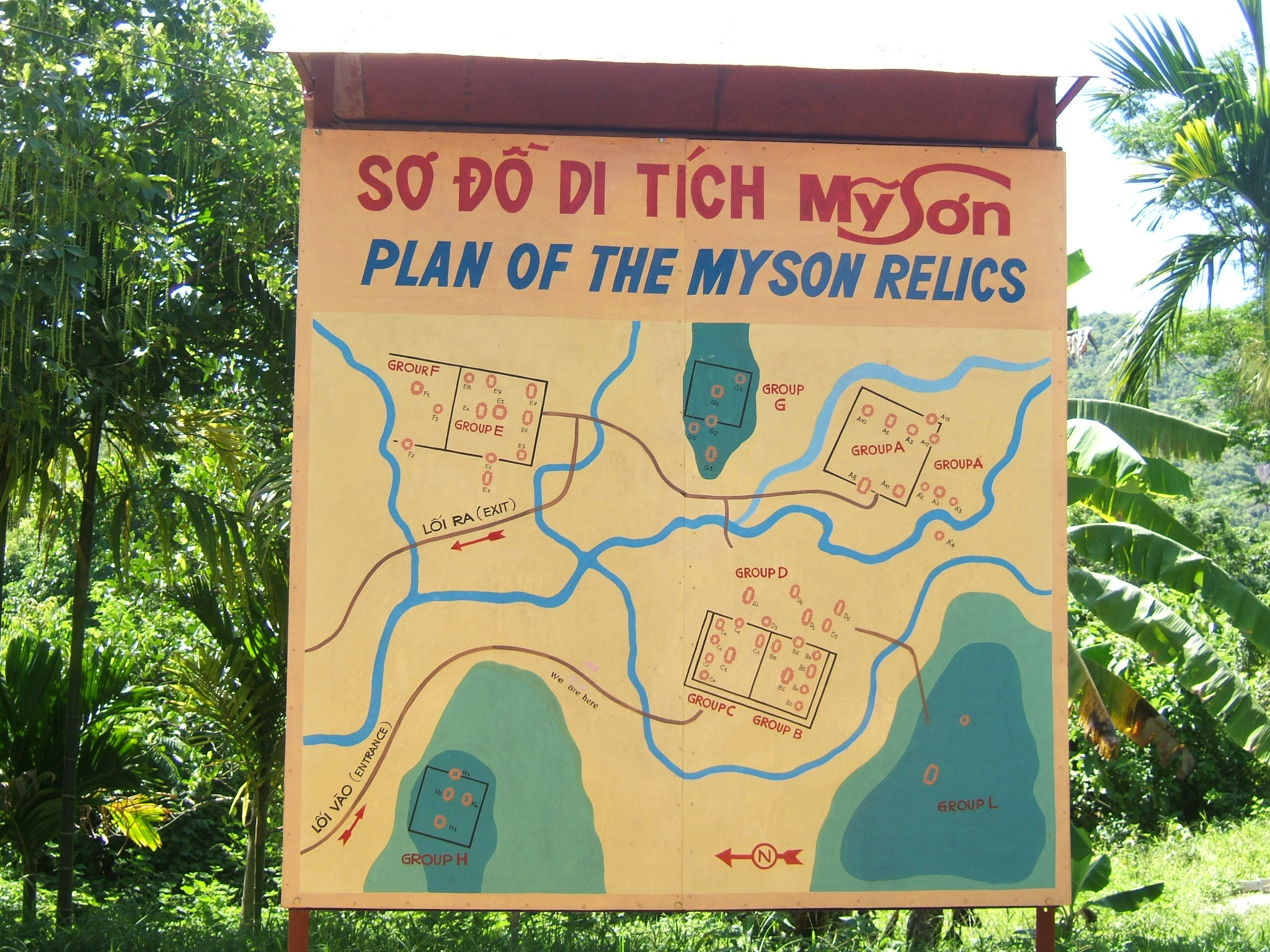 A large map of My Son